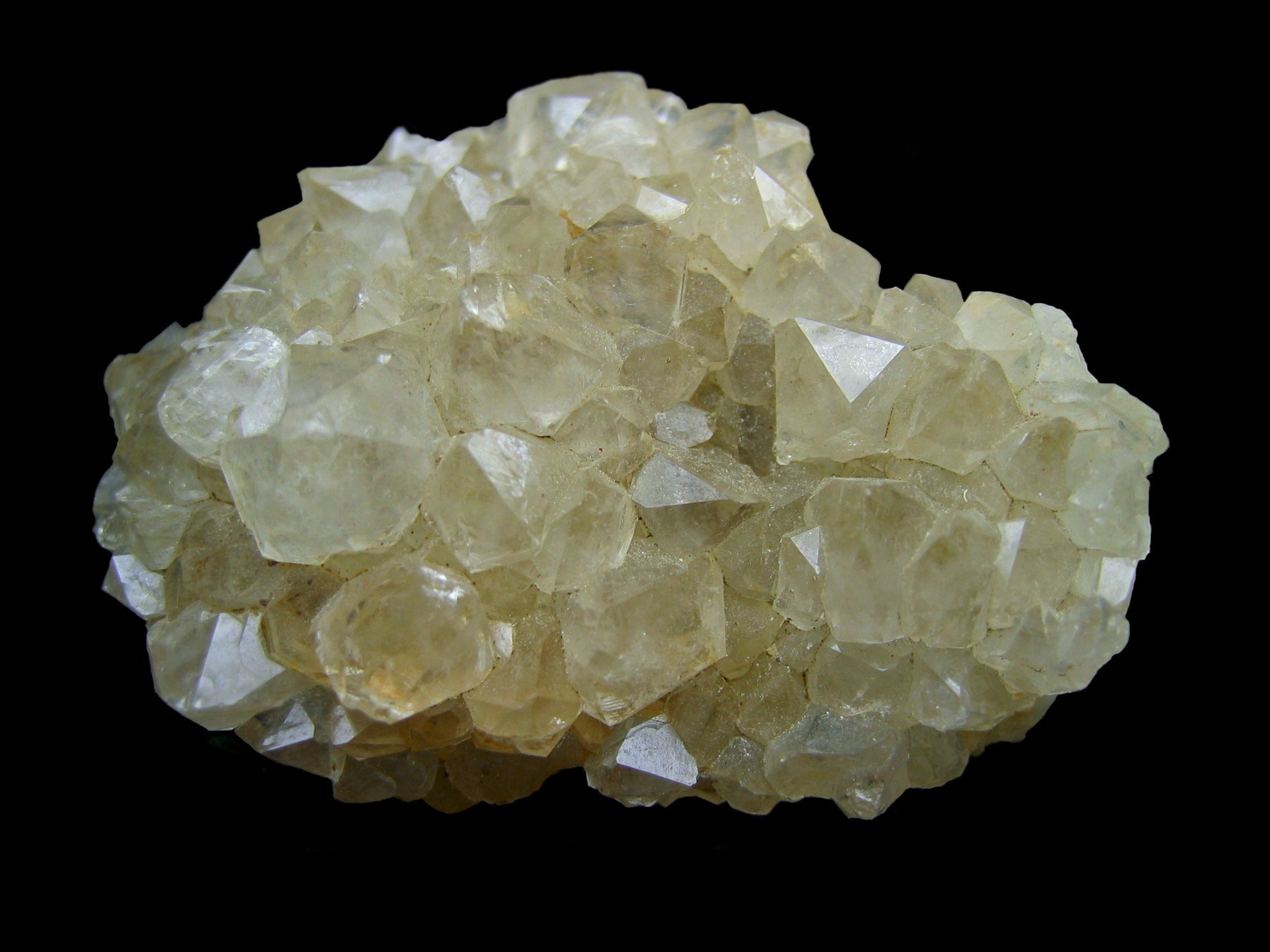 quartz